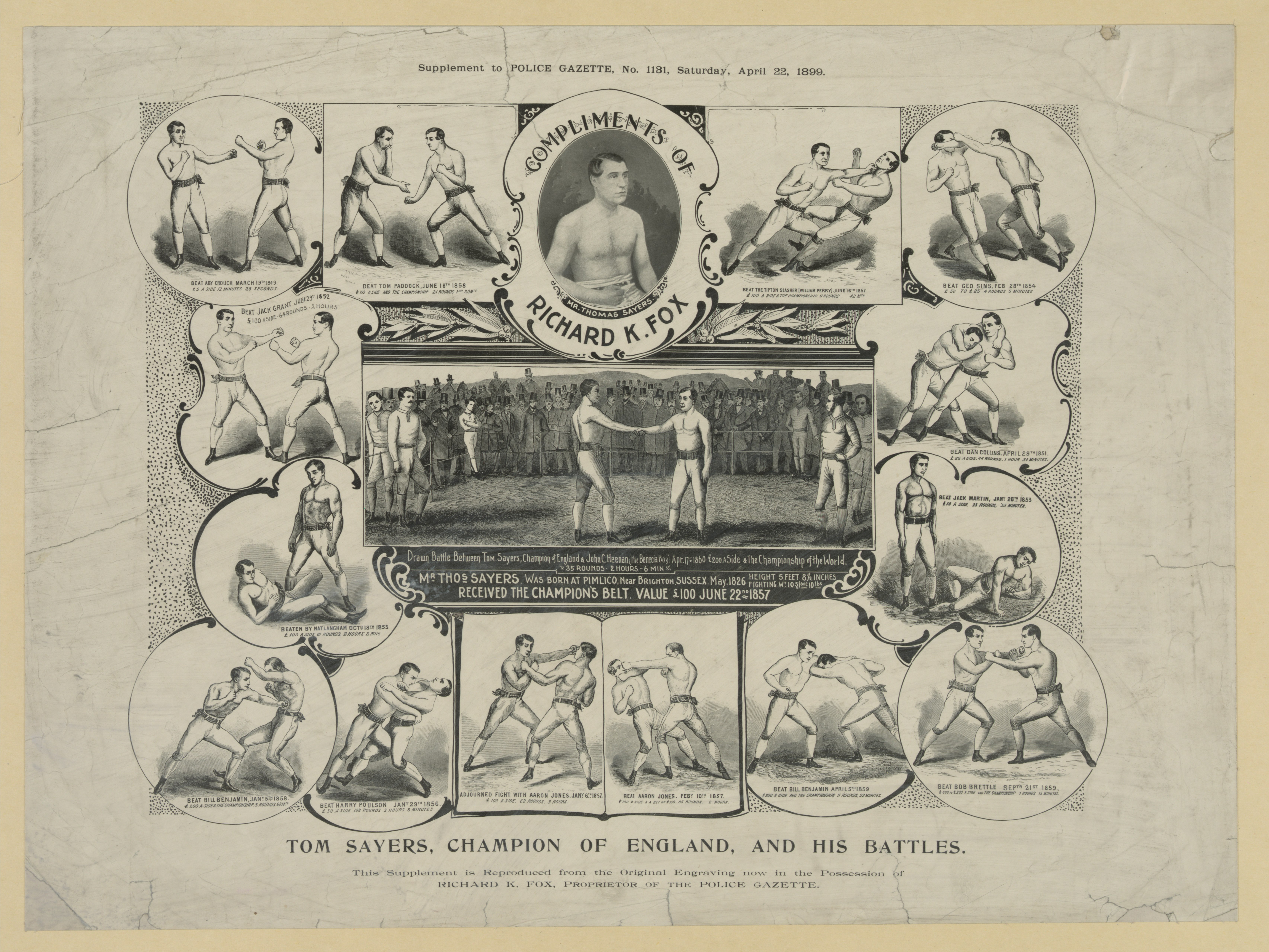 Title: Tom Sayers, champion of England, and his battles Physical description: 1 print. Notes: This record contains unverified data from PGA shelflist card.; Associated name on shelflist card: Fox, Richard K.